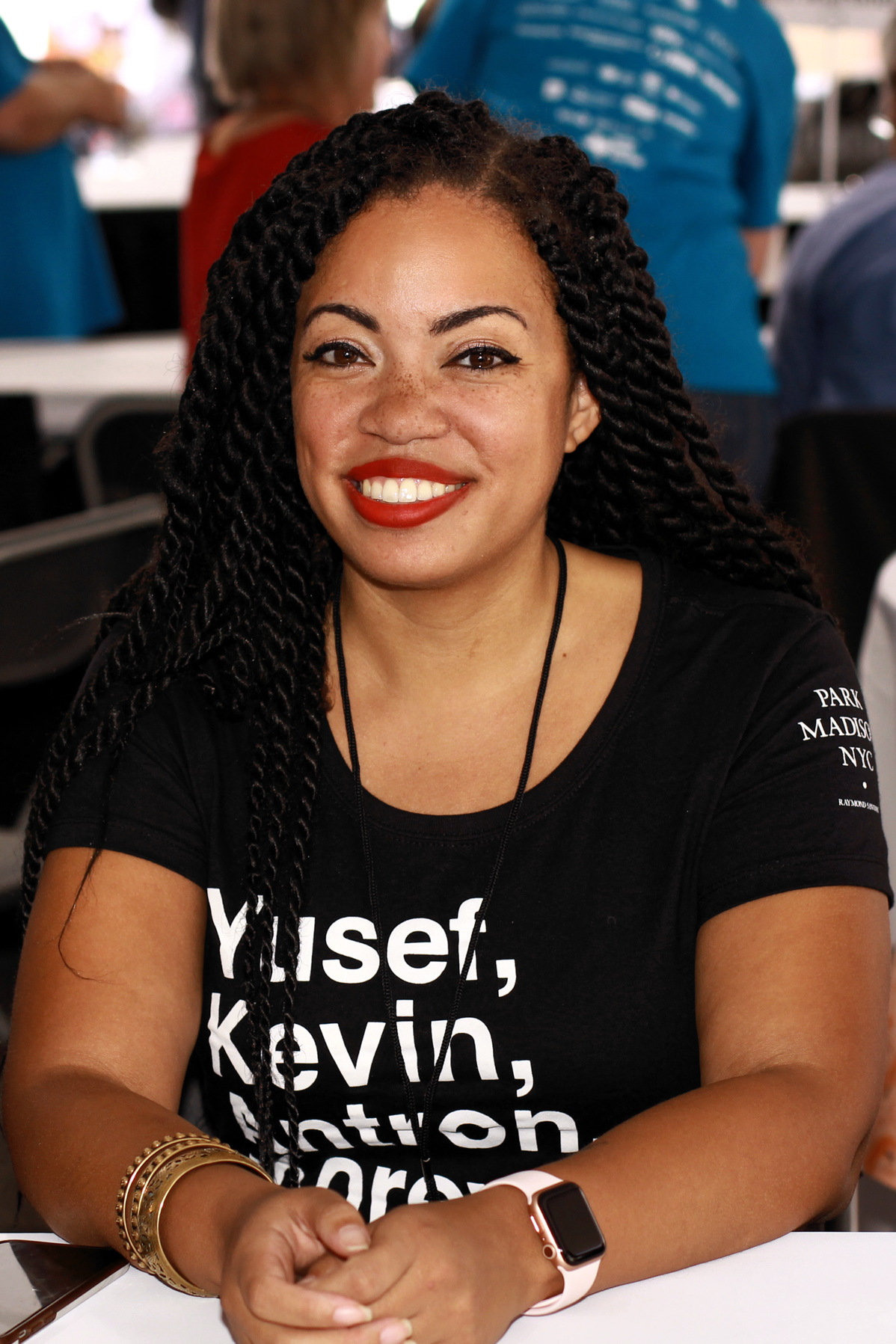 Author Tiffany D. Jackson at the 2019 Texas Book Festival in Austin, Texas, United States.